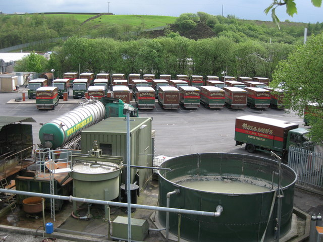 Hollands Pie Vans Baxenden is the Home of Holland's Pies. Walter Holland and Sons’ pies and puddings date back to the middle of the last century. The company was founded by John Whitaker in 1851 as a confectioners shop in Haslingden, Lancashire. Walter himself bought the family business in 1890 and moved to a much larger bakery in 1907, from where pies were delivered locally by horse and cart. The first of Holland’s famous brightly painted vans appeared in 1927 and by 1938 there were 20 vans making regular deliveries around the North West. Today their large fleet of vans are seen all over the North West of England when not parked up in the factory yard above. For more information about Hollands click .